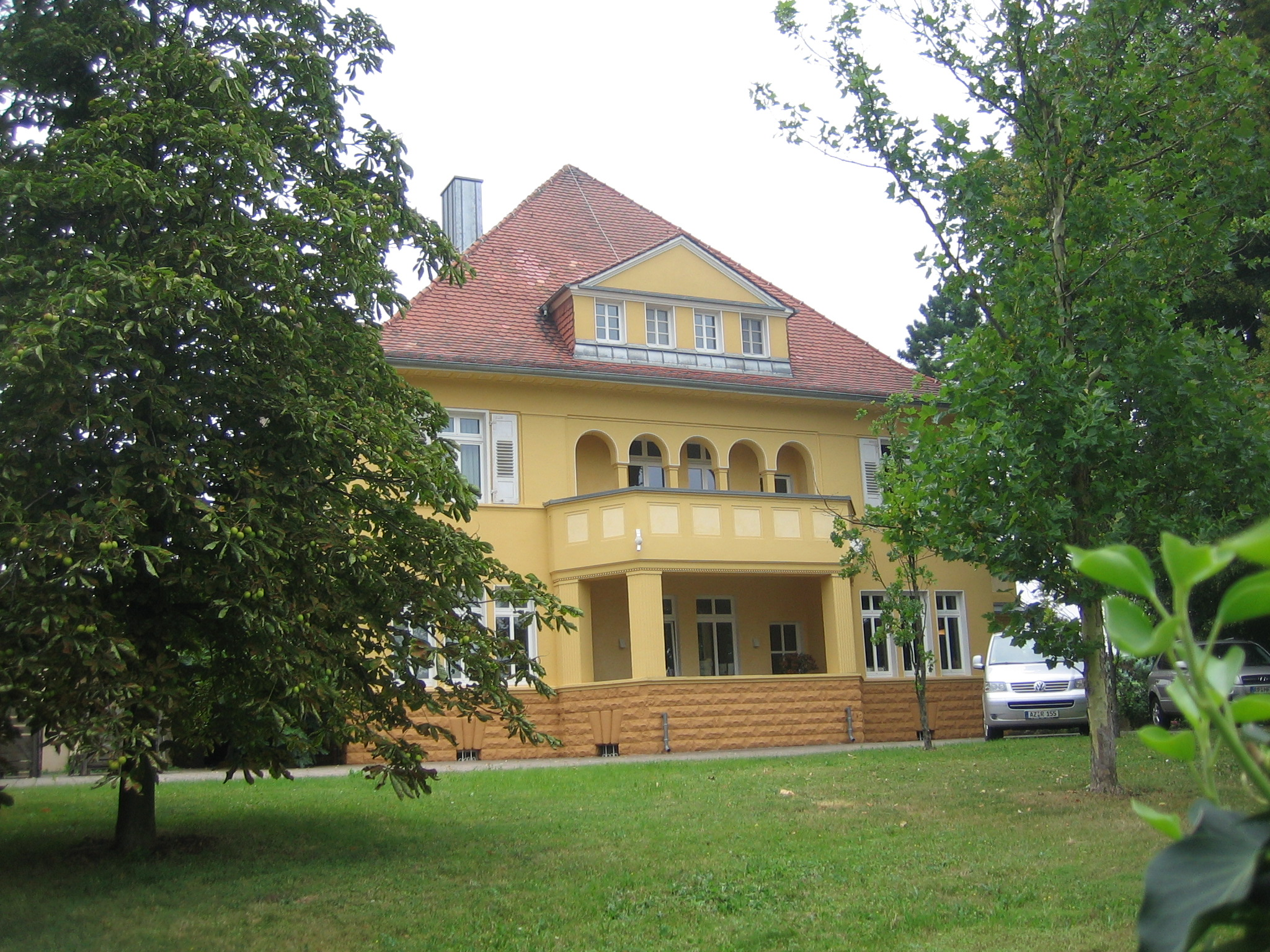 Sparkling wine producer Raumland in Dalsheim